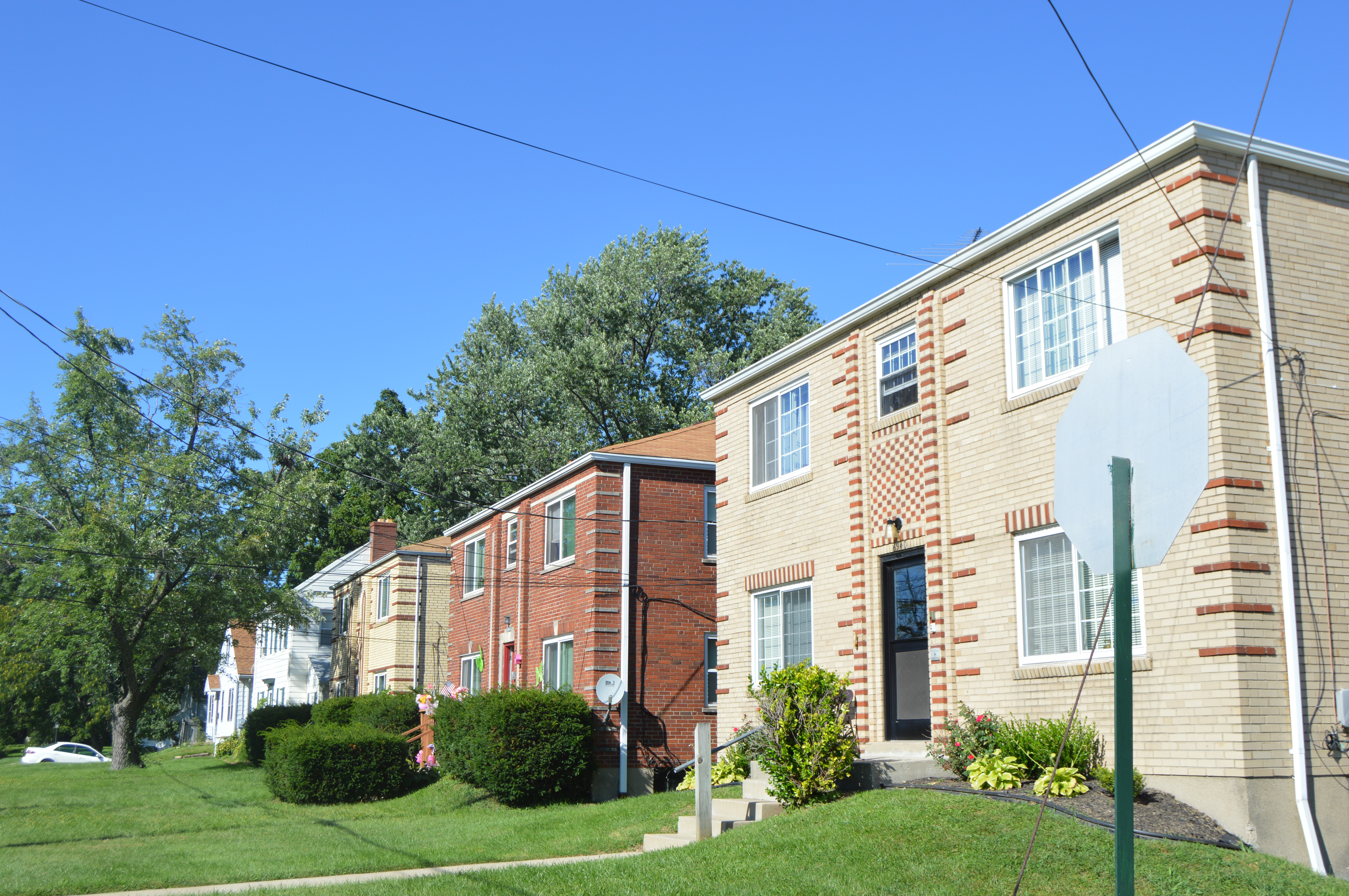 Houses on the eastern side of Silverton Avenue just north of Home Street in Silverton, Ohio, United States. Built shortly after the Second World War, this block's architecture is typical of the area's immediate postwar residential construction.